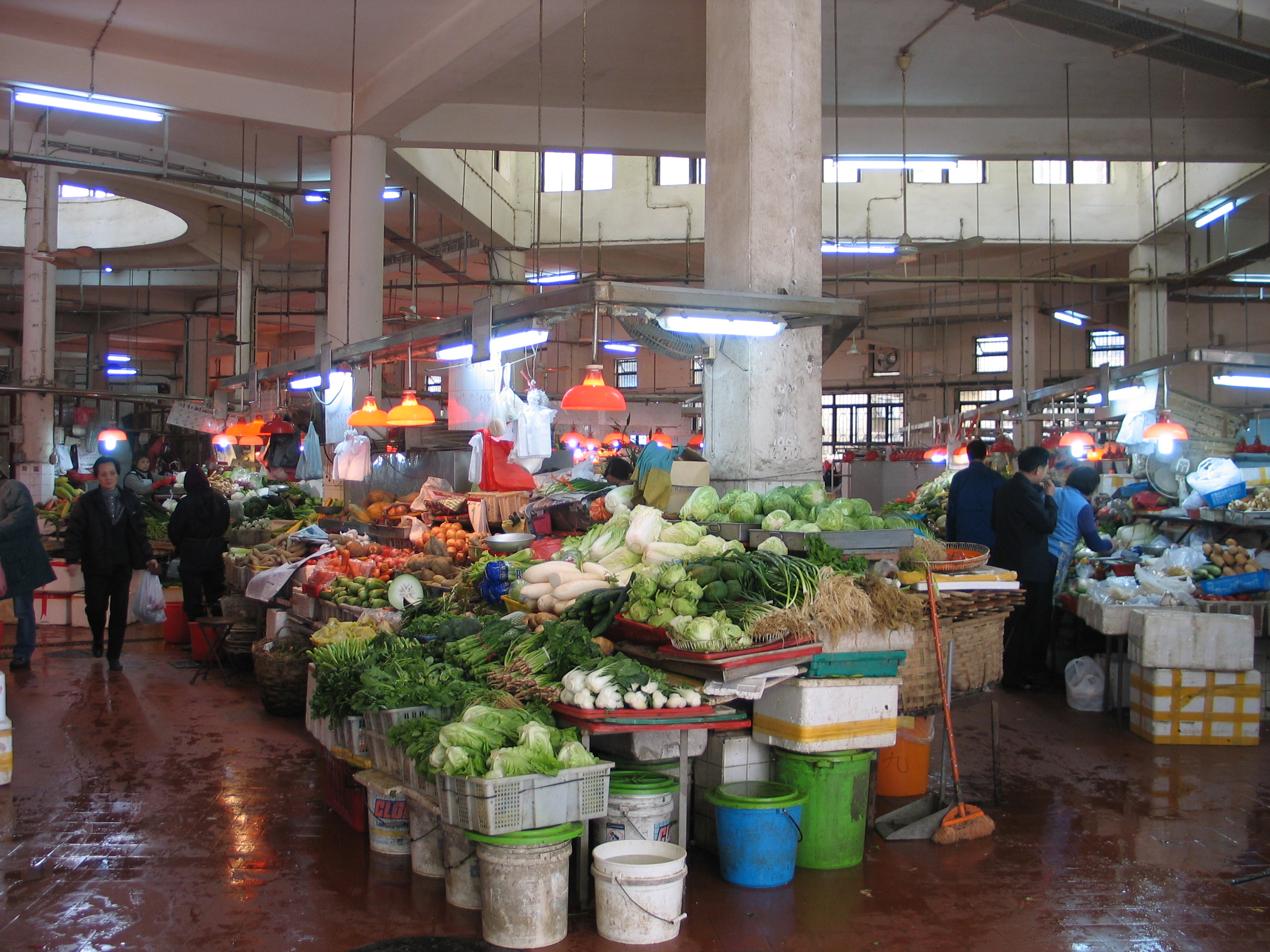 Inside Mercado Municipal de S. Lourenço 下環街市內 Source: taken by Glio, using Canon Powershot G5